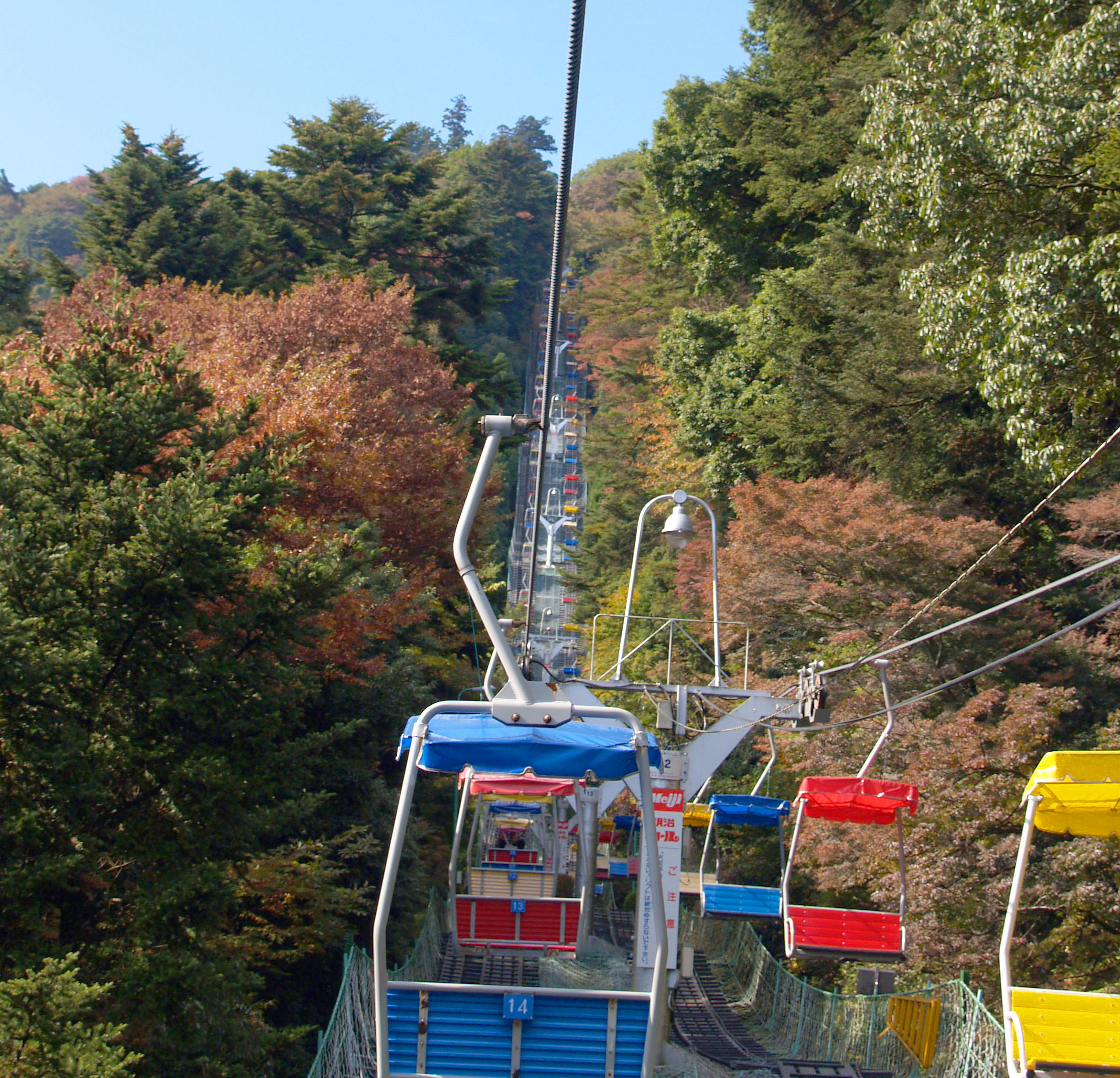 "Echo Lift", Mount Takao